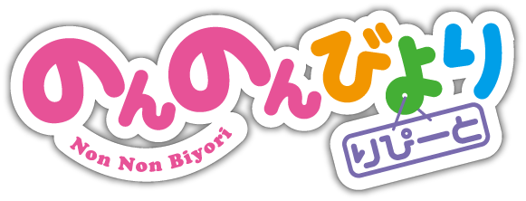 Non Non Biyori Repeat logo